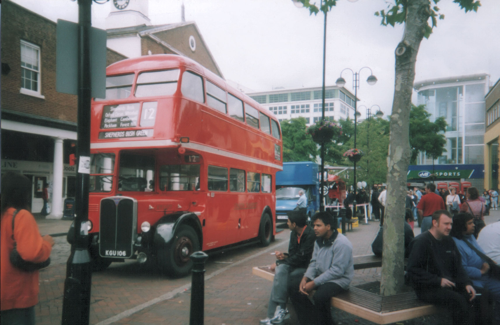 AEC Regent III RT 2177 (KGU 106) outside Uxbridge tube station. Withdrawn by London Transport in 1979, this appeared on a special event marking 100 years of the Uxbridge branch of the Metropolitan Line.